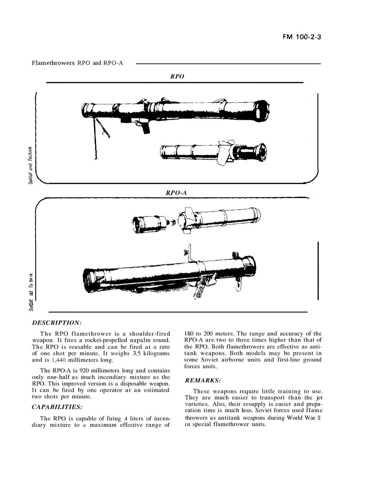 Page from a training manual for the US Army showing technical details of the RPO and RPO-A "flamethrowers", as known in 1991.